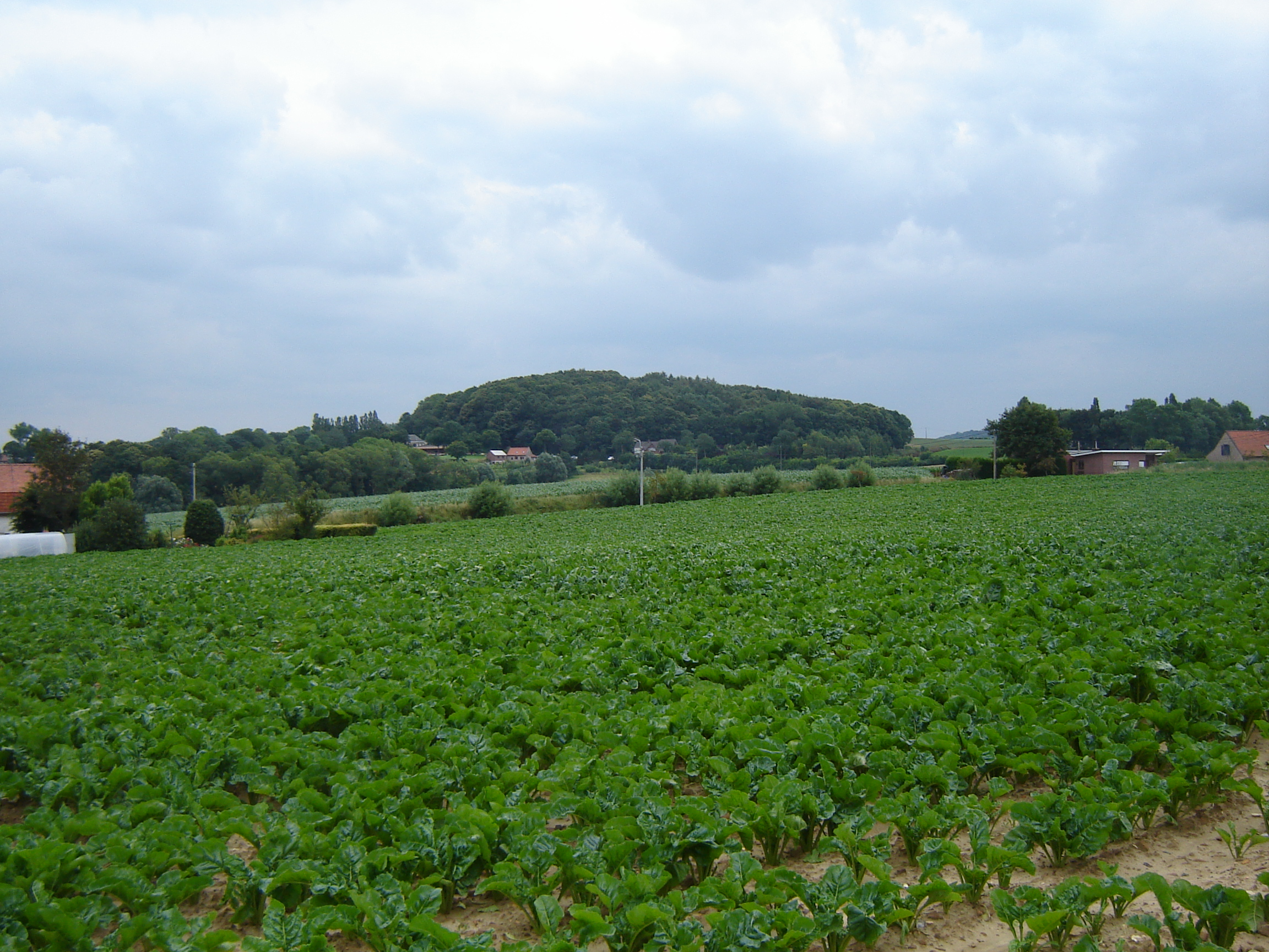 Scherpenberg hill in Loker, as seen from the west (territory of Westouter). Heuvelland, West Flanders, Belgium.